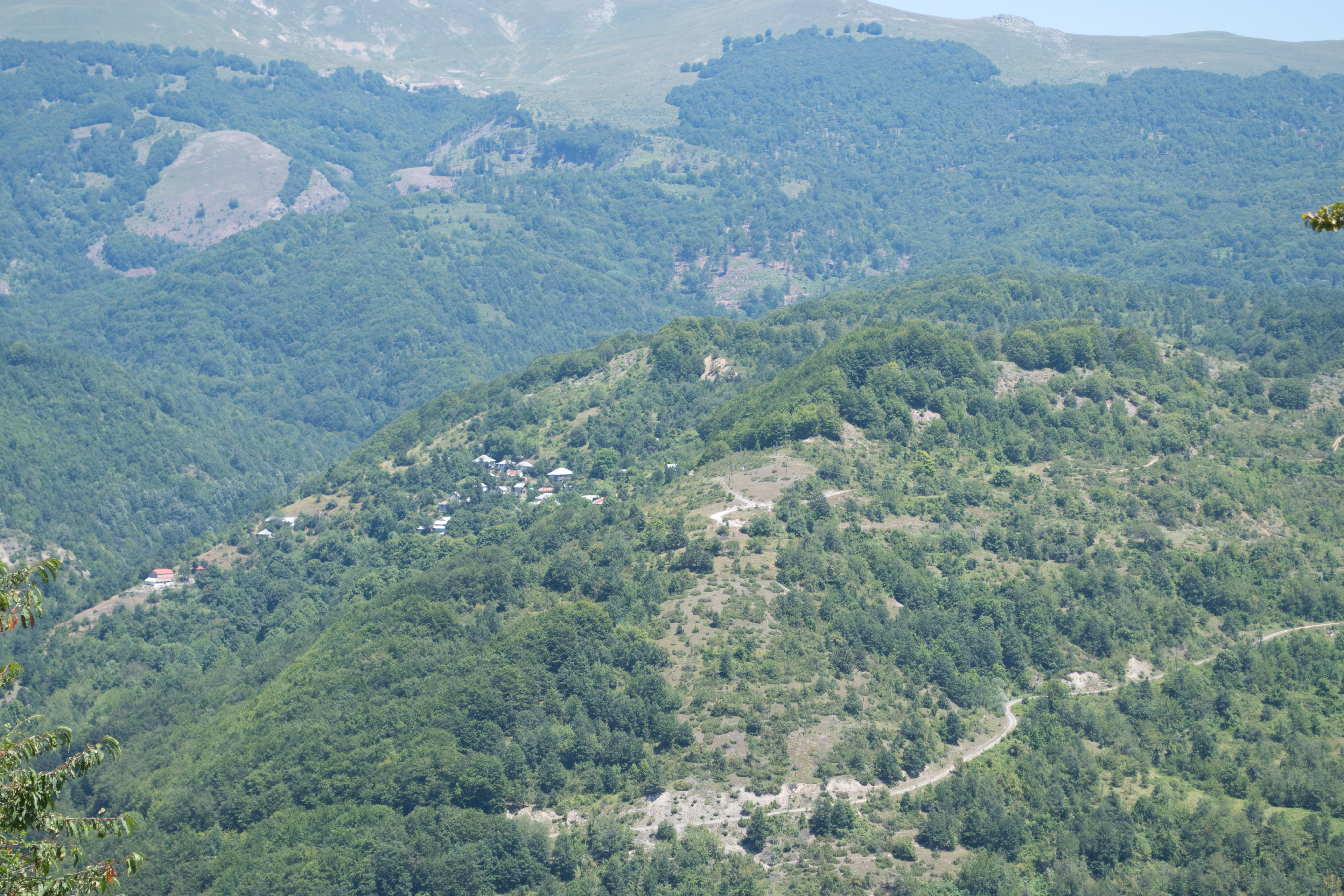 View of the village R'žanovo